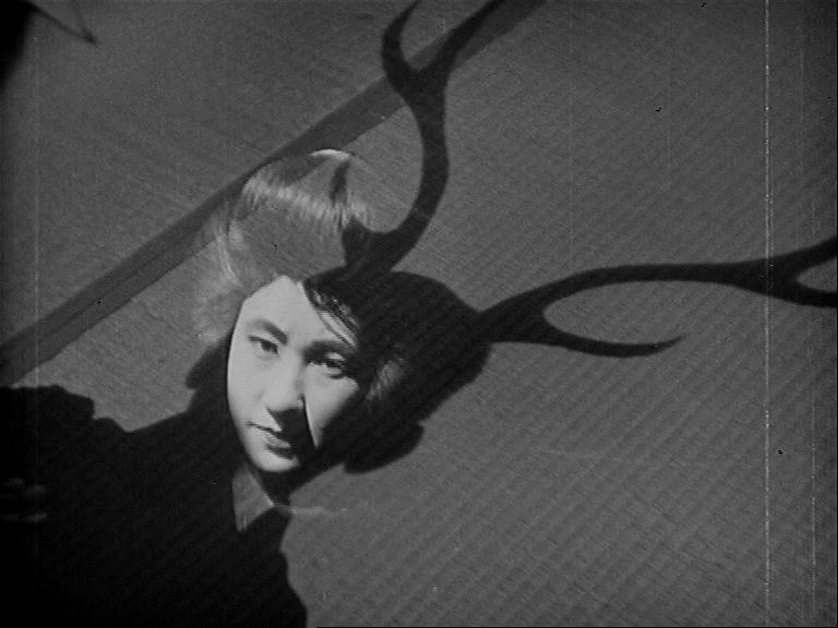 Shizue Natsukawa in The Tokyo March by Kenji Mizoguchi